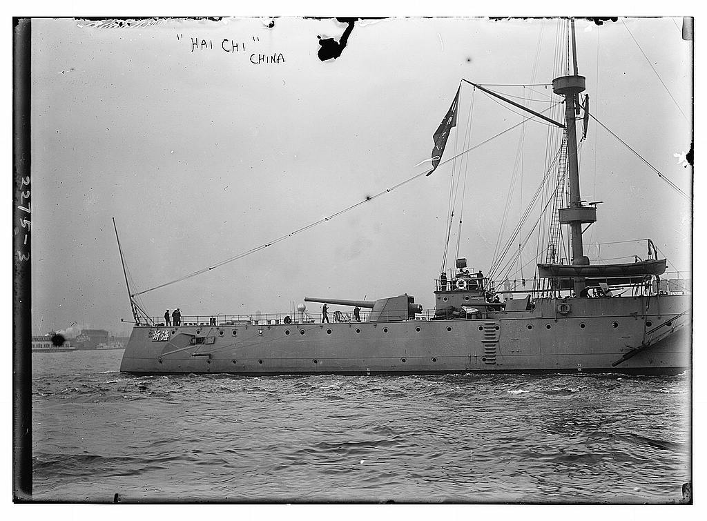 Bain News Service,, publisher. Hai Chi on September 11, 1911 [1911 Sept. 11] 1 negative : glass ; 5 x 7 in. or smaller. Notes: Title from data provided by the Bain News Service on the negative. Date from similar Bain negative: LC-B2-2267-9. Photo shows the visit of the Chinese cruiser Hai-Chi, to New York City in September, 1911. (Source: Flickr Commons project, 2009 and New York Times Sept. 13, 1911) Forms part of: George Grantham Bain Collection (Library of Congress). Subjects: Ships Format: Glass negatives. Repository: Library of Congress, Prints and Photographs Division, Washington, D.C. 20540 USA, General information about the Bain Collection is available at Persistent URL: Call Number: LC-B2- 2275-3